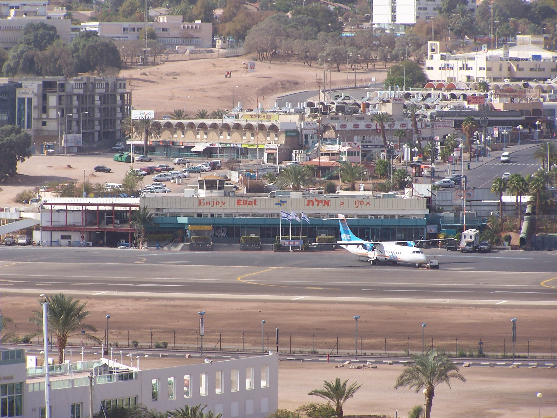 Eilat Airport in central Eilat, Israel